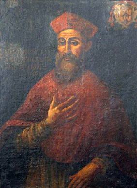 Probable portrait of Cardinal Bonito (1350-1413).